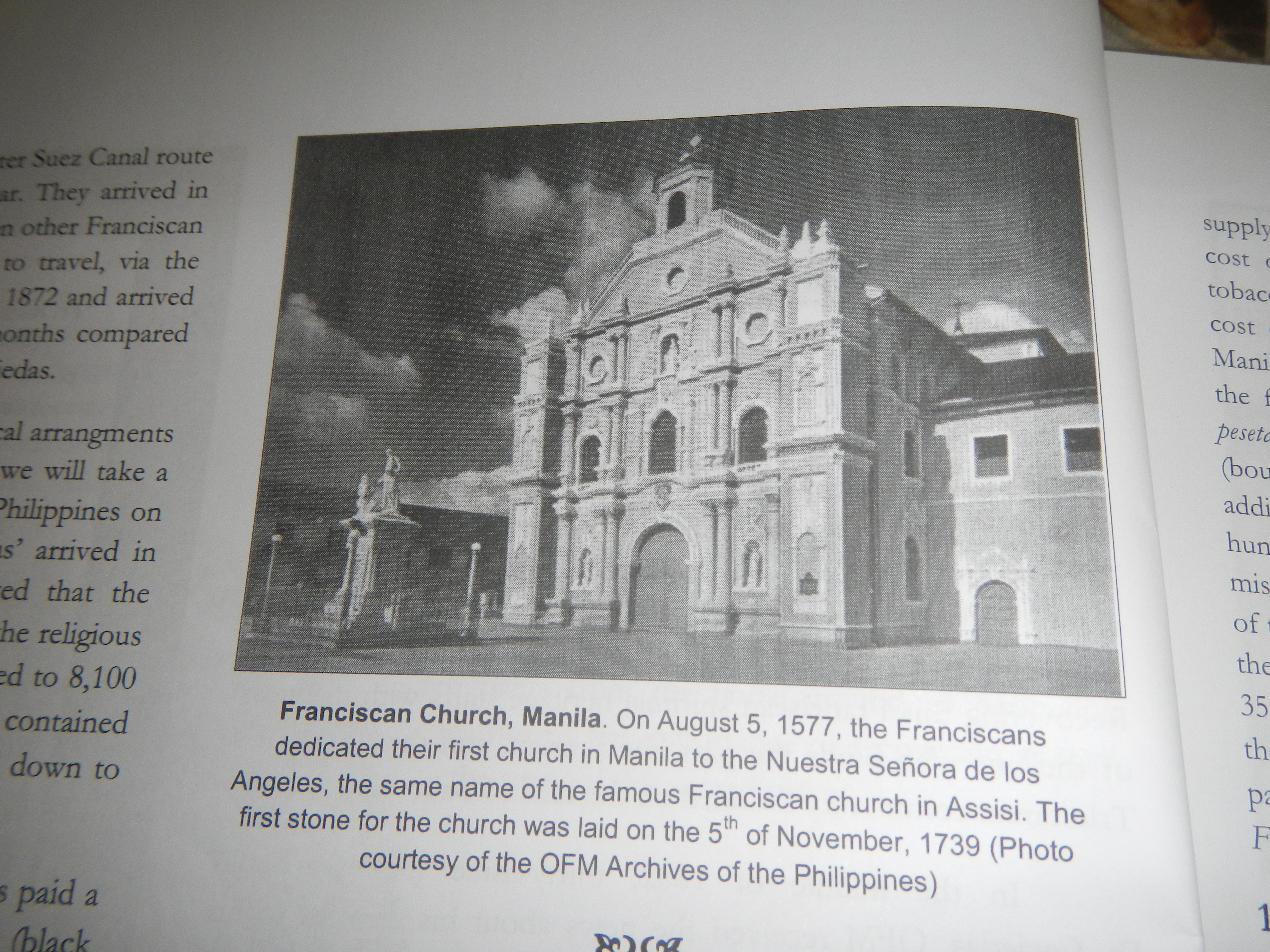 Nuestra Señora de Los Angeles Parish Church (Intramuros, Manila) Roman Catholic Archdiocese of Manila Holy Trinity Academy (Philippines) Most Holy Trinity Parish Church (Cementerio Balic-Balic, 1890-1918, as Franciscan Convent in 1613, Battle of Balic-Balic, Philippine-American Revolution 1899 Calabash Road, Balic-Balic, Sampaloc, Manila), began as a chapel in 1925 and Church in 1928, Our Lady of the Blessed Trinity Sampaloc, Manila, located in the List of barangays of Metro Manila, Barangays 398, Zone, 41, 419, Zone 43, 430, 437, Zone 44, 534, 535, 536, 541, Zone 53, 556, 565, Zone 55, 573, 574, 575, 576, Zone Zone 56, District IV, Barangays 398, Zone, 41, 419, Zone 43, 430, 437, Zone 44, 534, 535, 536, 541, Zone 53, 556, 565, Zone 55, 573, 574, 575, 576, Zone Zone 56, District IV, Sampaloc, Manila (Note: Judge Florentino Floro, the owner, to repeat, Donor Florentino Floro of all these photos hereby donate gratuitously, freely and unconditionally all these photos to and for Wikimedia Commons, exclusively, for public use of the public domain, and again without any condition whatsoever).